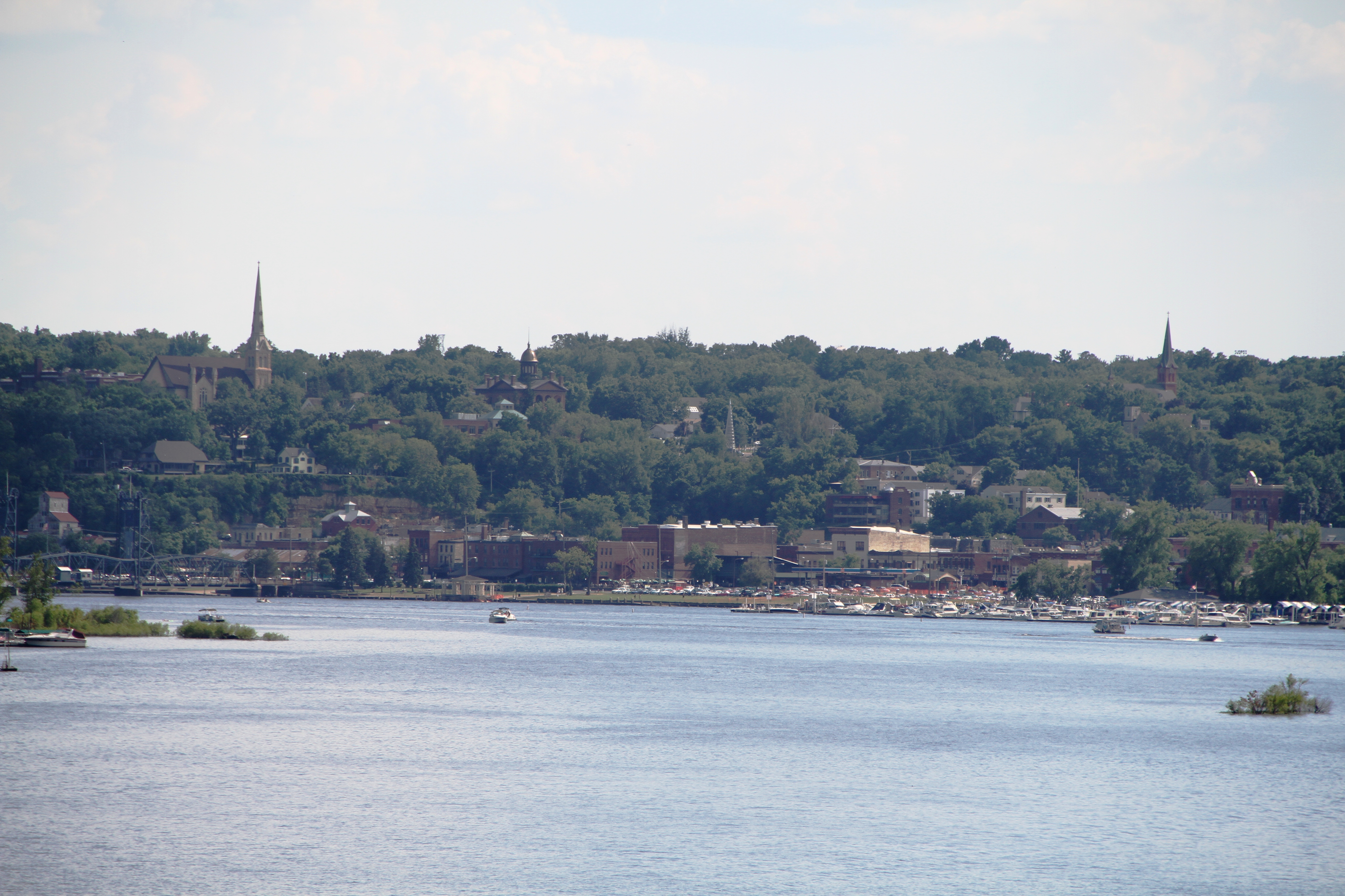 View towards Stillwater on the Mississippi River, eastern Minnesota.